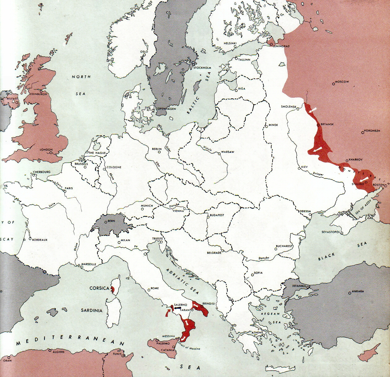 Map of the front against Germany: This map is taken from the source "Atlas of the World Battle Fronts in Semimonthly Phases to August 15th 1945: Supplement to The Biennial report of The Chief of Staff of the United States Army July 1, 1943 to June 30 1945 To the Secretary of War". (See Cover, Forward and Map details)